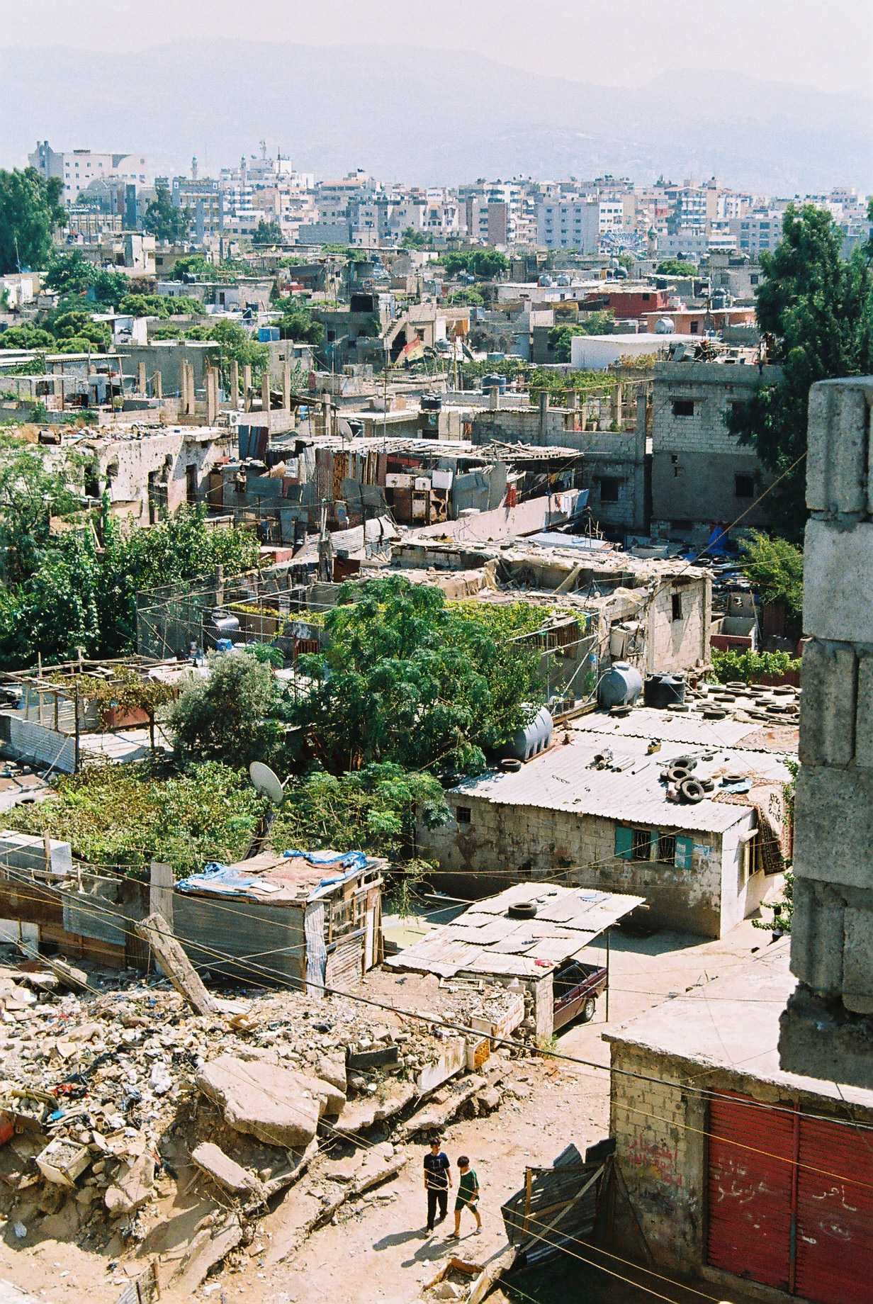 From the Roof Sabra_and_Shatila_massacre